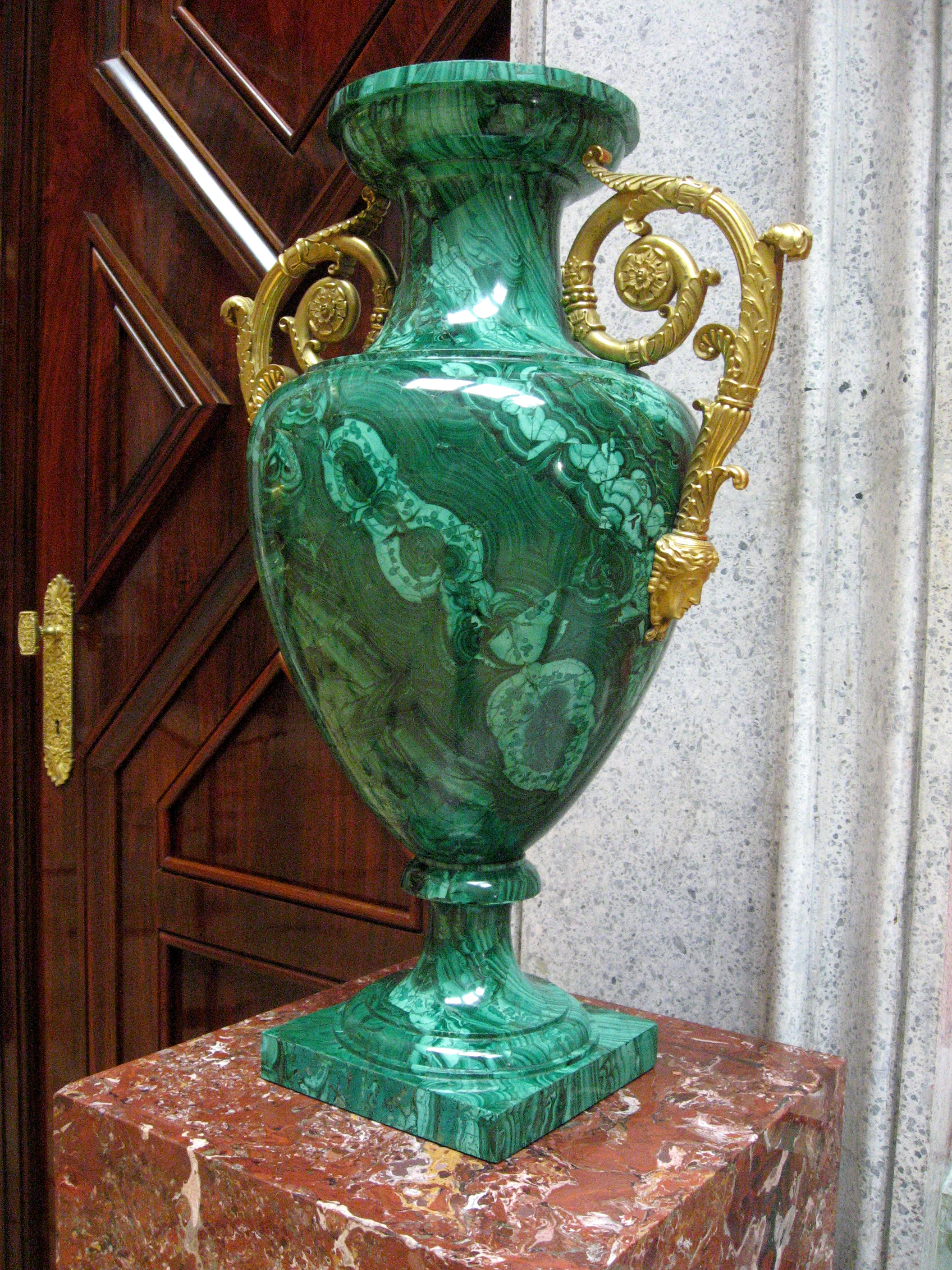 Hermitage